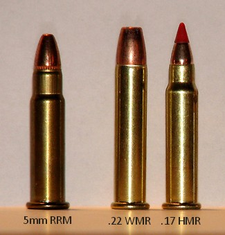 From left to right: 5mm Remington Rimfire Magnum, .22 Winchester Magnum Rimfire, .17 Hornady Magnum Rimfire